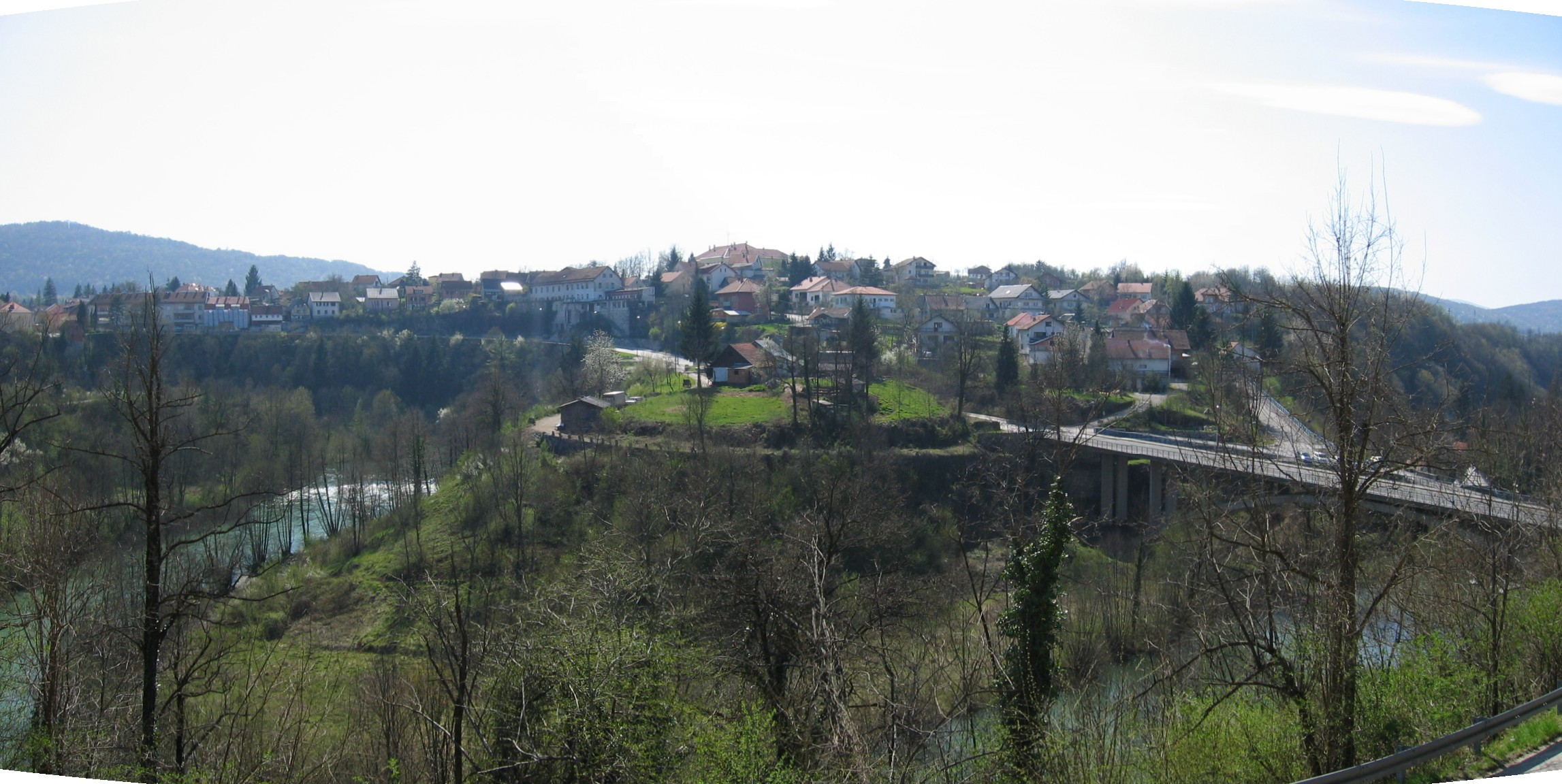 Slunj, Croatia. Panoramic view on the town from Napoleonic warehouse. Slunjcica river beneath the town hill. Picture taken in April 2006.